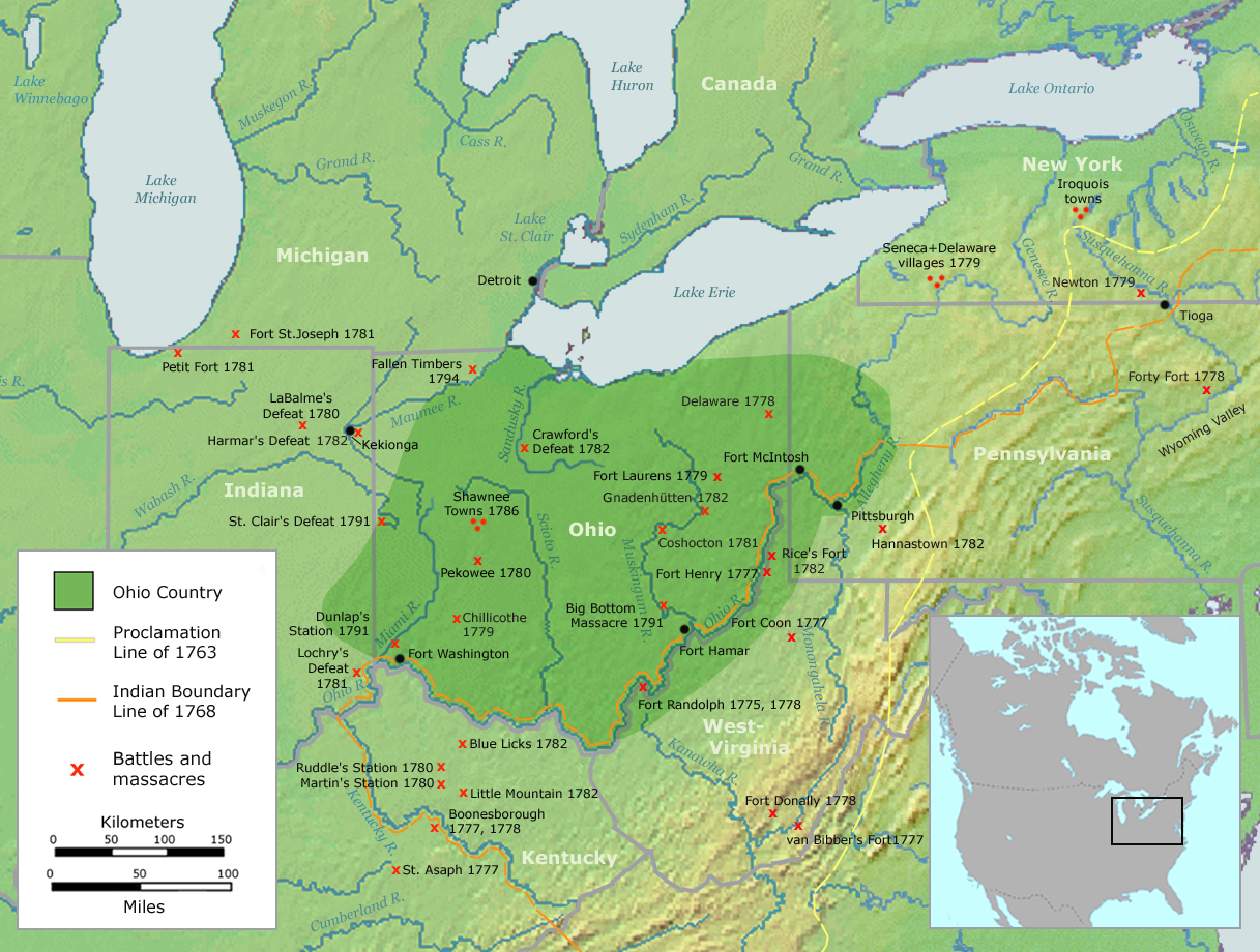 Map of the Ohio Country (English version)